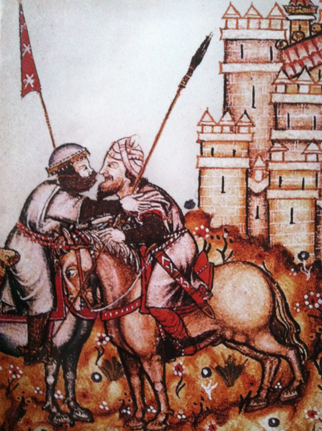 A Muslim alcaide embraces his Castilian ally before the siege of Chincoya Castle in Mudéjar revolt of 1264–66. Sources: in p.111 in Joseph F. O'Callaghan (1998) Alfonso X and the Cantigas De Santa Maria: A Poetic Biography, BRILL ISBN: 90-04-11023-2. Oxford Cantigas de Santa María database the oxford cantigas de santa maría database describes this panel (panel 2 of CSM 185) as "A Christian and a Moorish warrior embrace. Both are armed and on horseback." Note: Previous file description and filename erroneously describes this image as "Mohammed I ibn Nasr", which contradicts the reliable sources above)